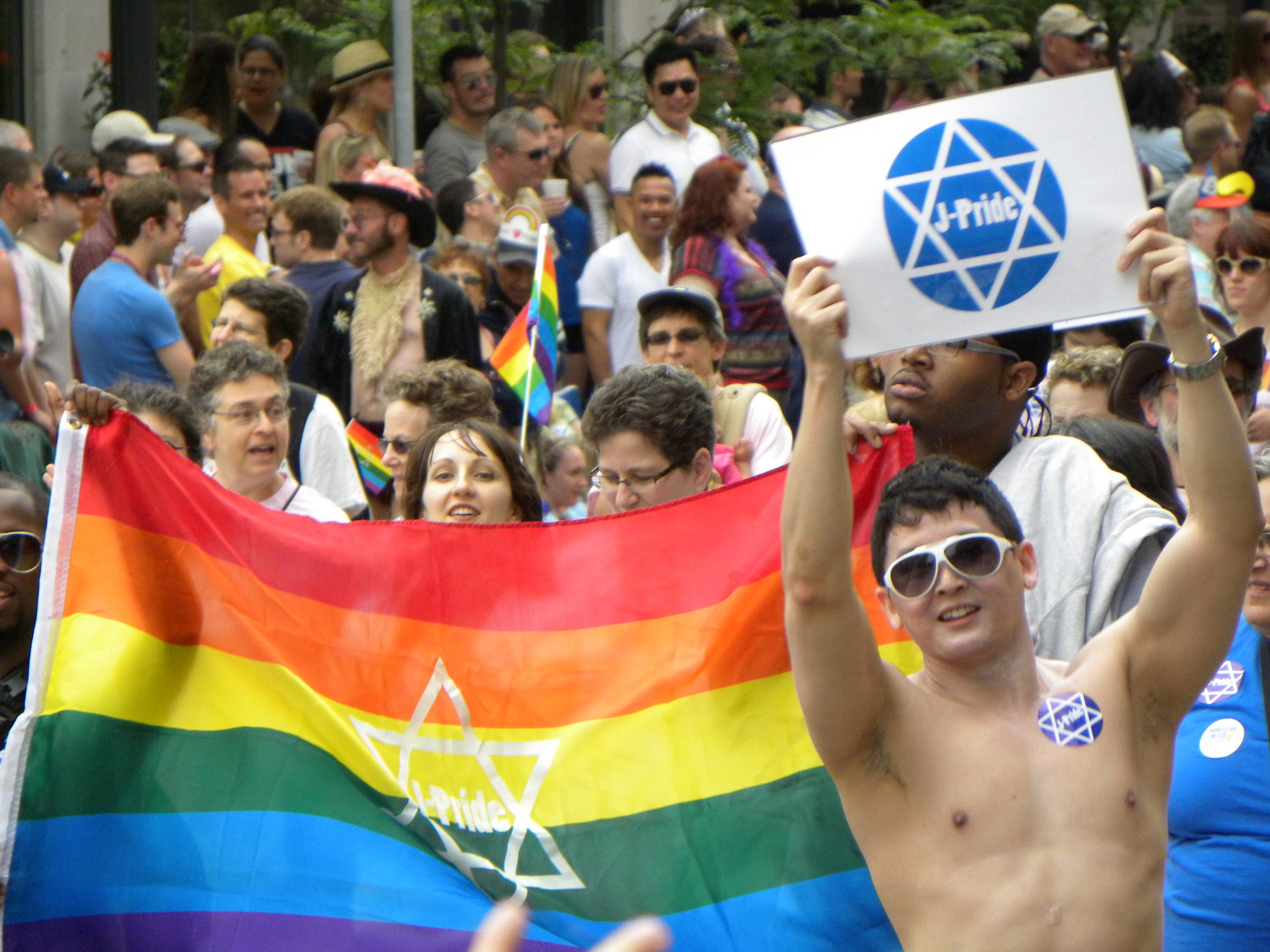 Minneapolis, Minnesota June 26, 2011 The Ashley Rukes GLBT Pride Parade was held along Hennepin Avenue and had over 100,000 spectators. It's one of the largest parades in the upper midwest and the largest in Minneapolis. 2011-06-26 This is licensed under a Creative Commons Attribution License.